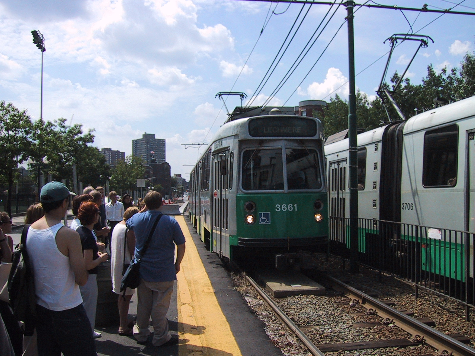 An inbound train at the temporary Museum of Fine Arts station in August 2001. The temporary station was used while the old station was rebuilt (in the background) for handicapped accessibility.